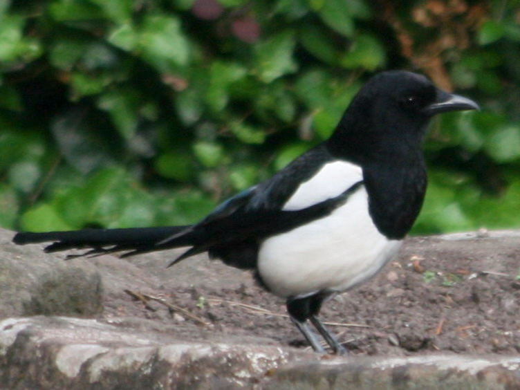 Common Magpie in West Kirby, England